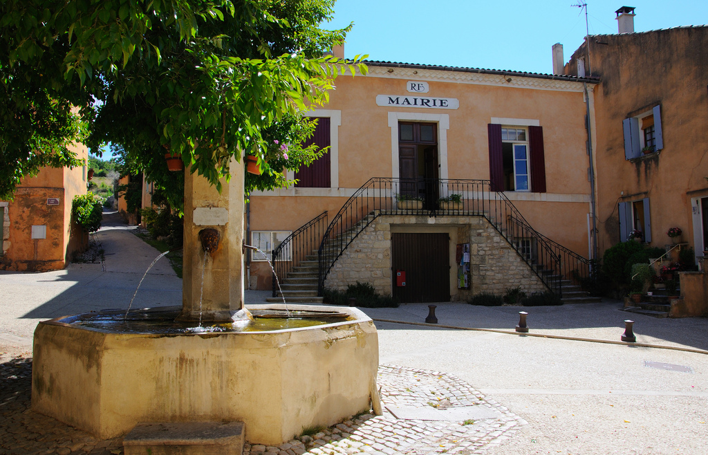 Fountain and Majors house of Flassan